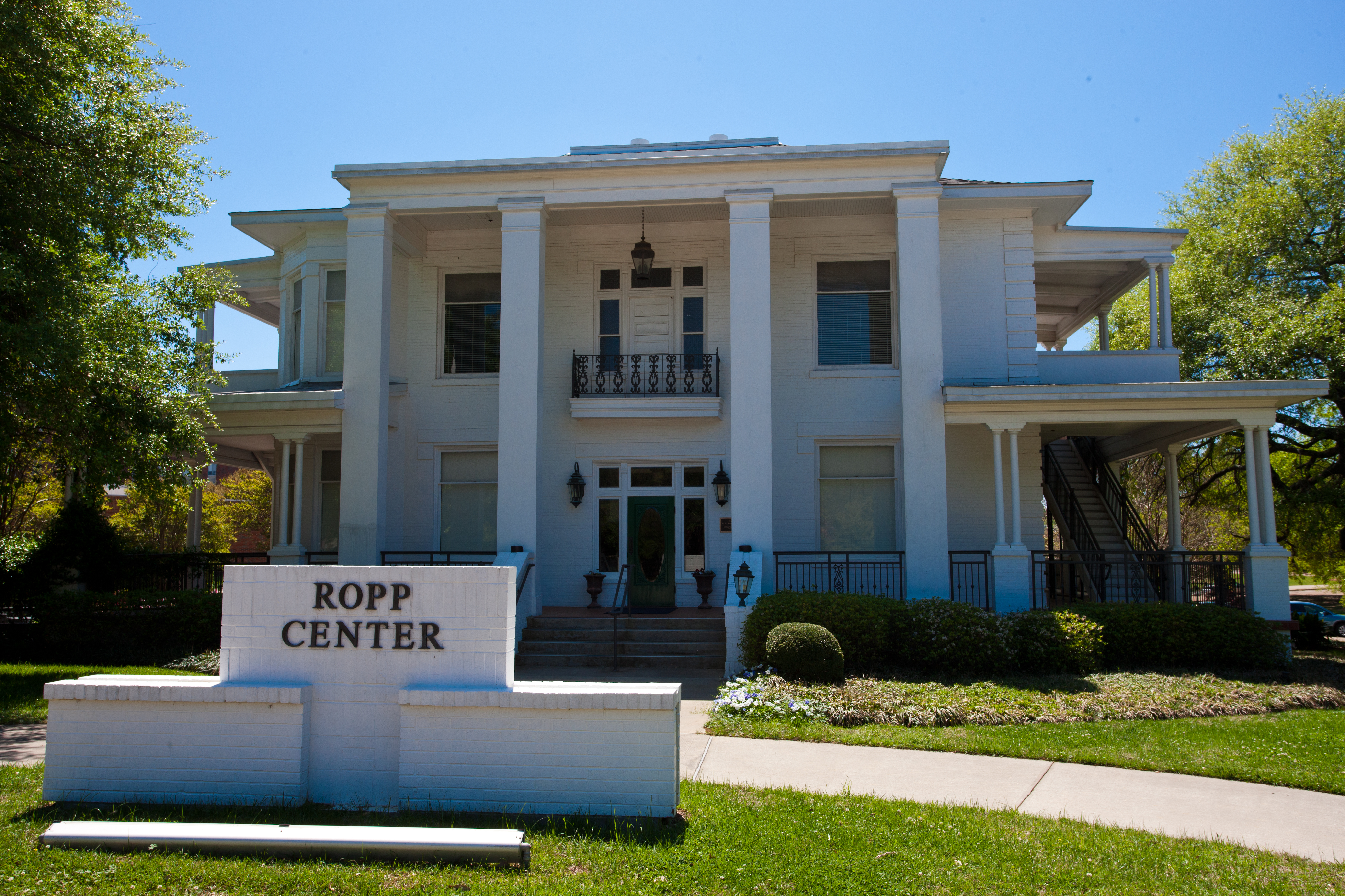 Louisiana Tech University Ropp Center